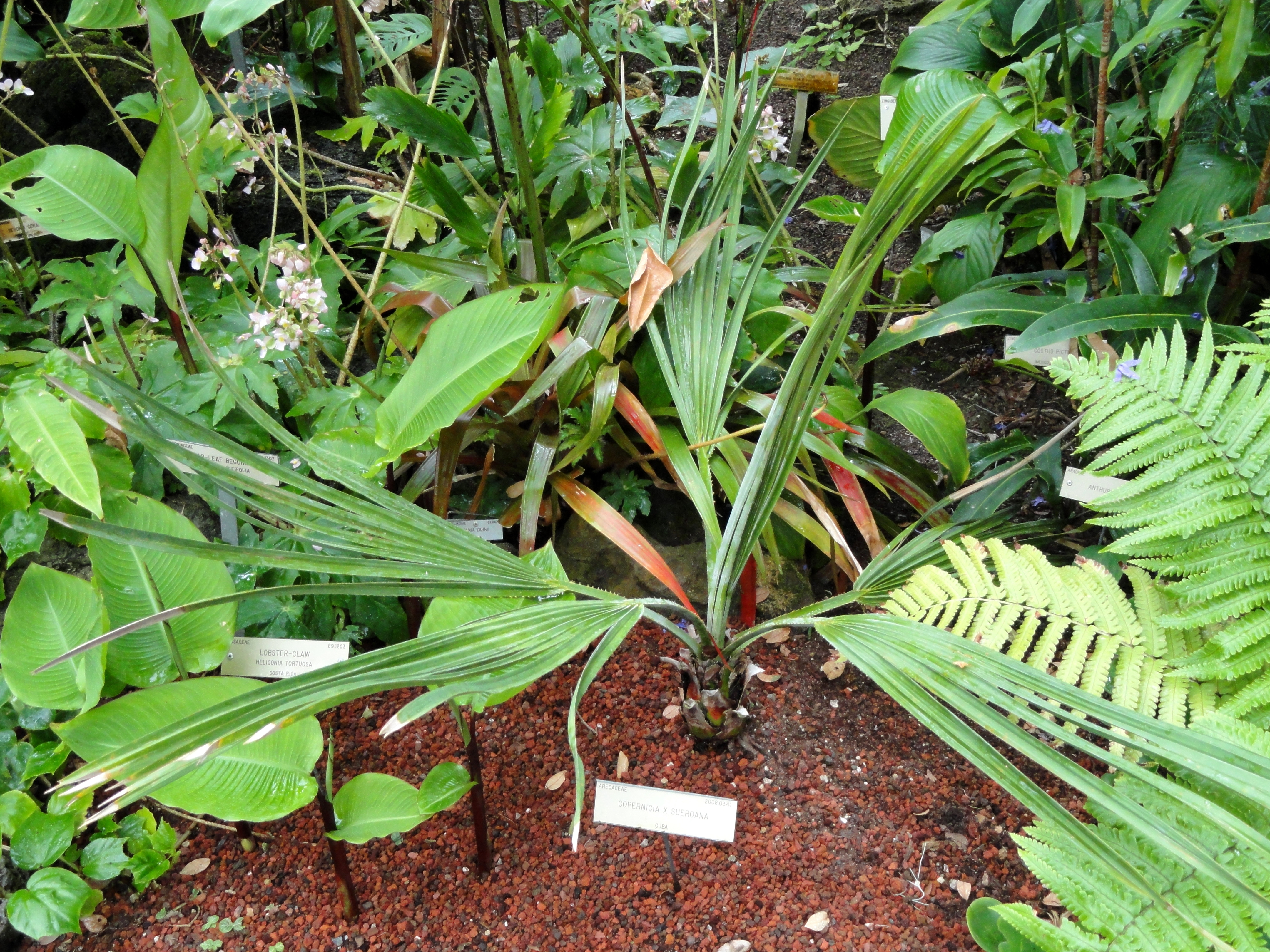 Copernicia x sueroana specimen in the University of California Botanical Garden, Berkeley, California, USA.